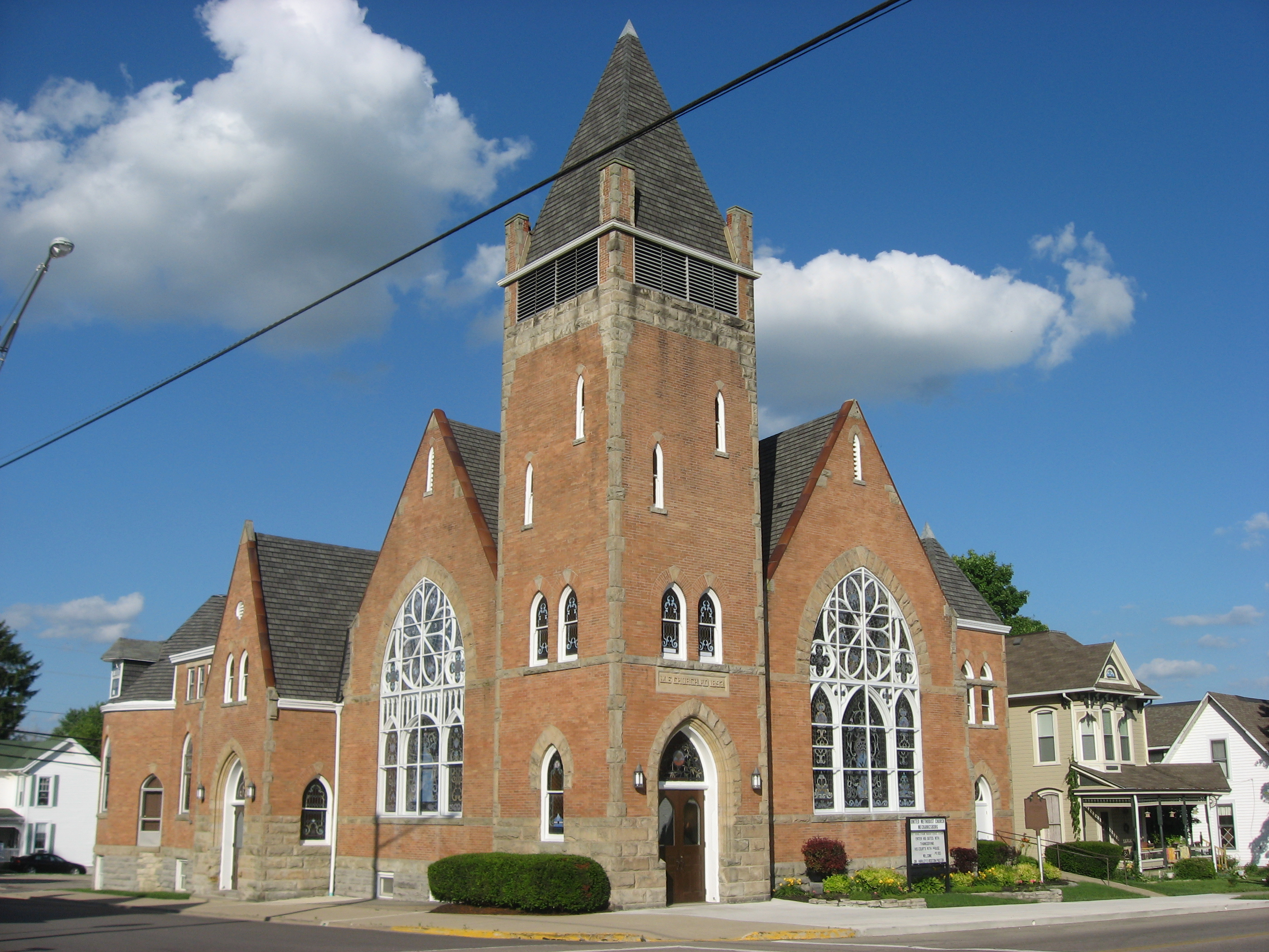 Front and side of the United Methodist Church, located on the eastern corner of the intersection of Main (State Route 29) and Race Streets in Mechanicsburg, Ohio, United States. Built in 1893, it is listed on the National Register of Historic Places.